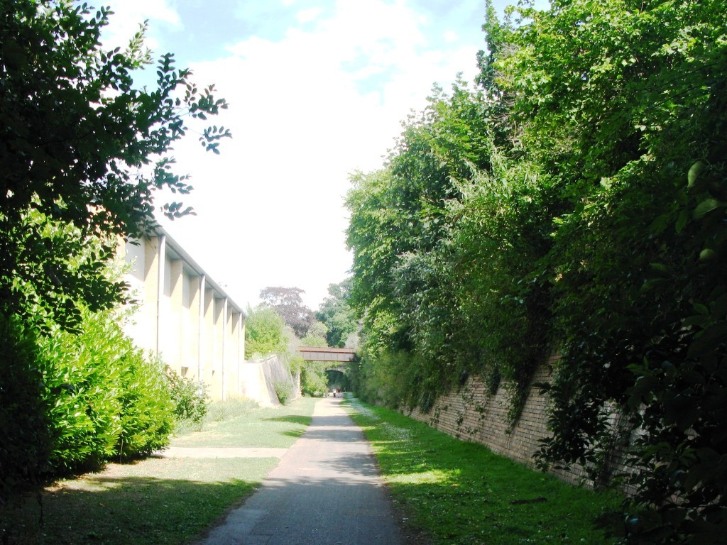 Looking towards Yeovil along the old Bristol and Exeter Railway line. The building on the left occupies the site of Hendford station, the first railway terminus in Yeovil.